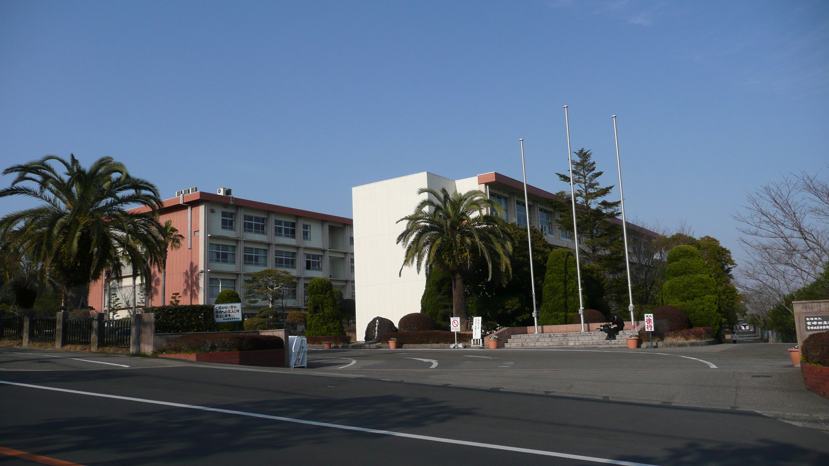 Miyazakinishi Senior High School (Miyazaki, Japan)